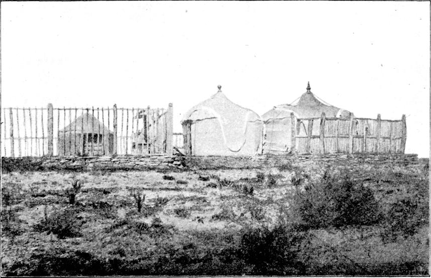 Charles-Eudes Bonin photography of mausoleum of Genghis Khan in Ordos area in 1897.